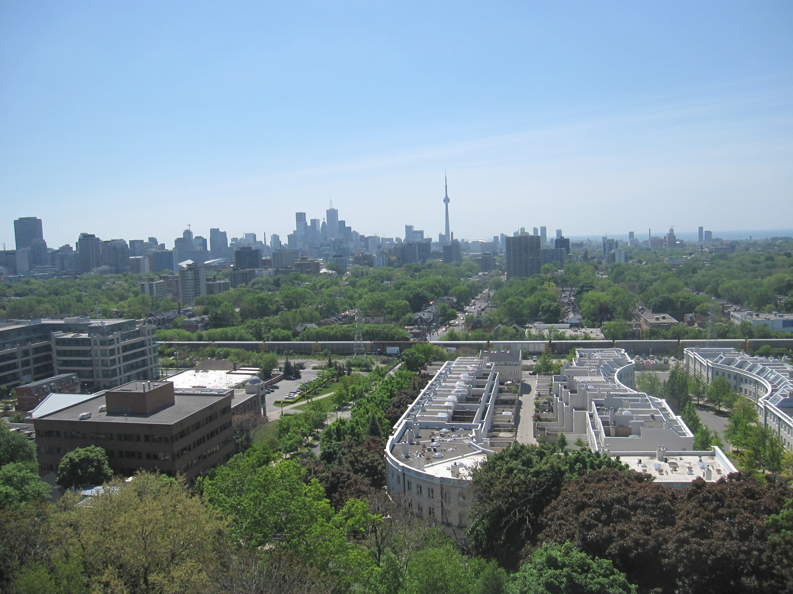 Casa Loma, 1 Austin Terrace, Toronto, Ontario, Canada. Big mansions, owned by business tycoons, may be quite common in the US (California's Hearst Castle being a good example), but they are much rarer in Canada. Here is a rare one: Casa Loma, the largest private residence in Canada, and the home of Sir Henry Mill Pallatt who had made his fortune with his electric power monopoly at the nearby Niagara Falls. The view south toward the city centre, from one of Casa Loma's towers. The row houses in front, not part of the Casa Loma complex, look quite English - and I like them.